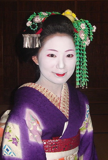 The maiko Mamechiho (of Ninben okiya, Gion Kôbu) in the Gion district of Kyoto. The style of the lipstick shows that she is still a novice. The green hair accessory features willow for June.